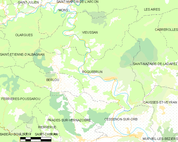 Map commune FR insee code 34232.png - Roquebrun